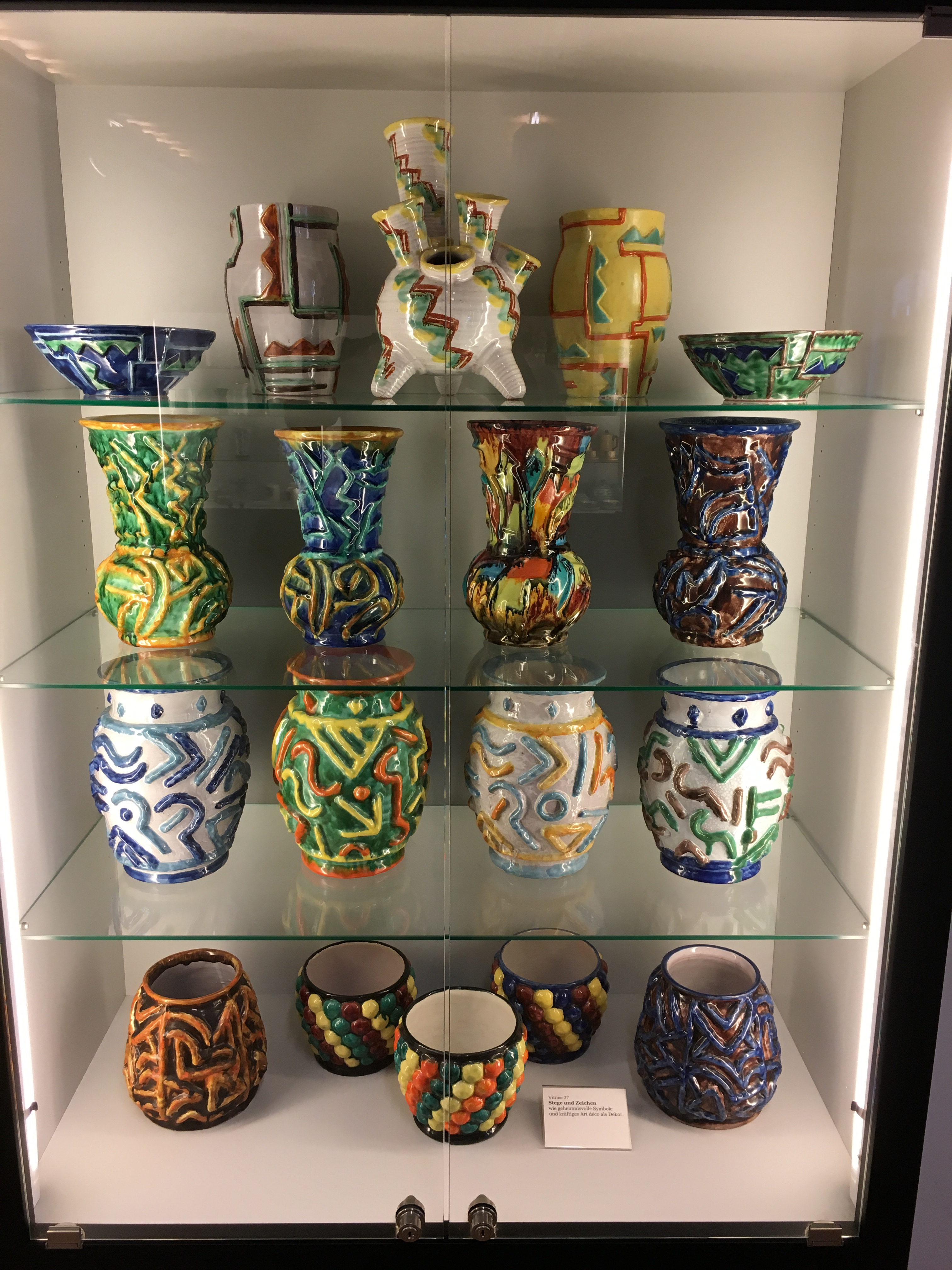 Tonindustrie Scheibbs Vasen